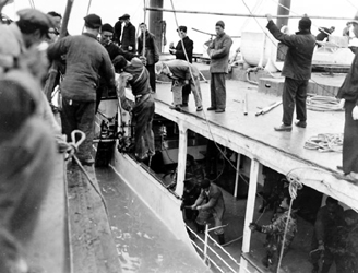 Rescue of SS Kiangya